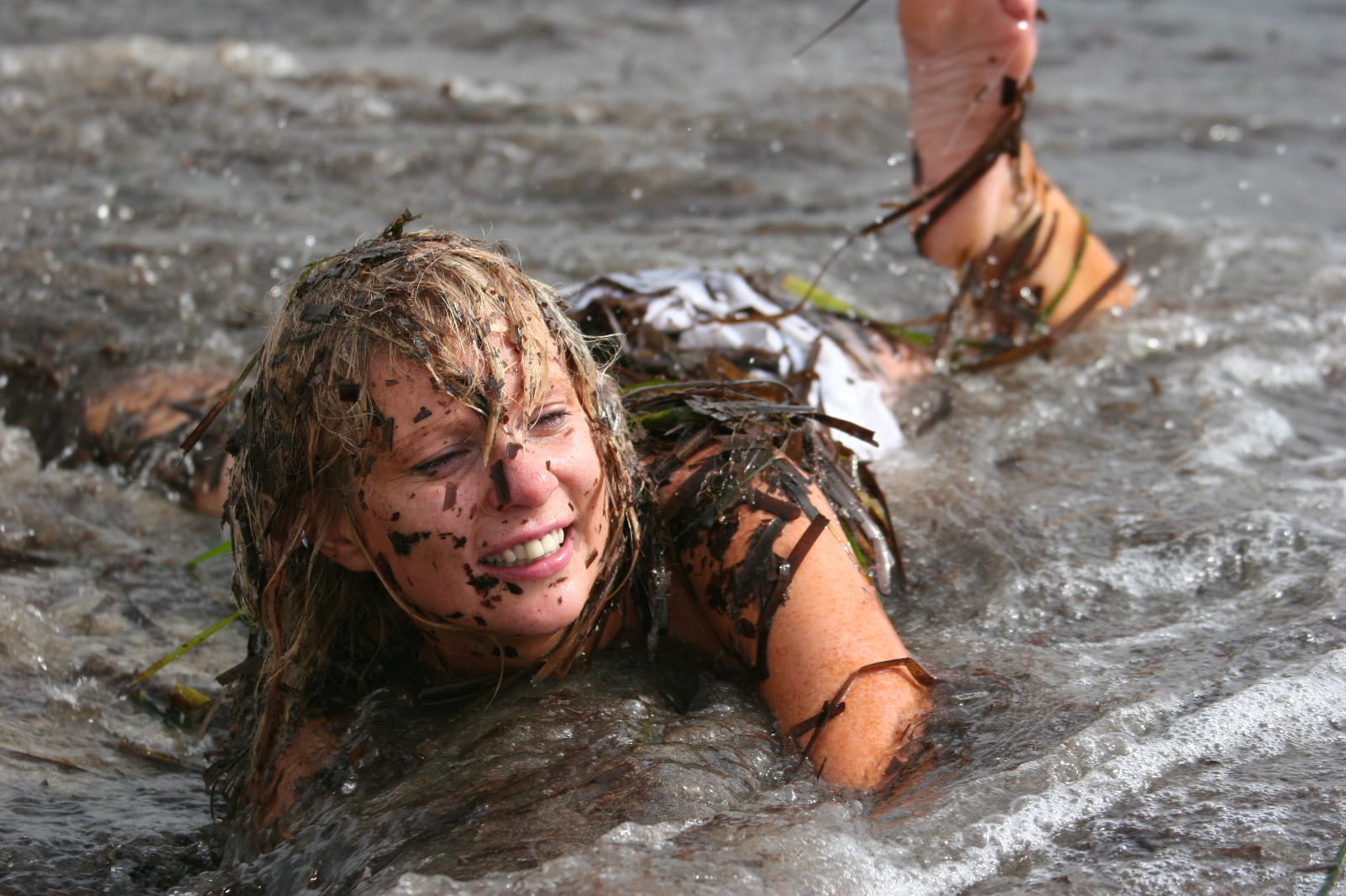 Young woman playing with Posidonia oceanica leaves on a beach in Ibiza.